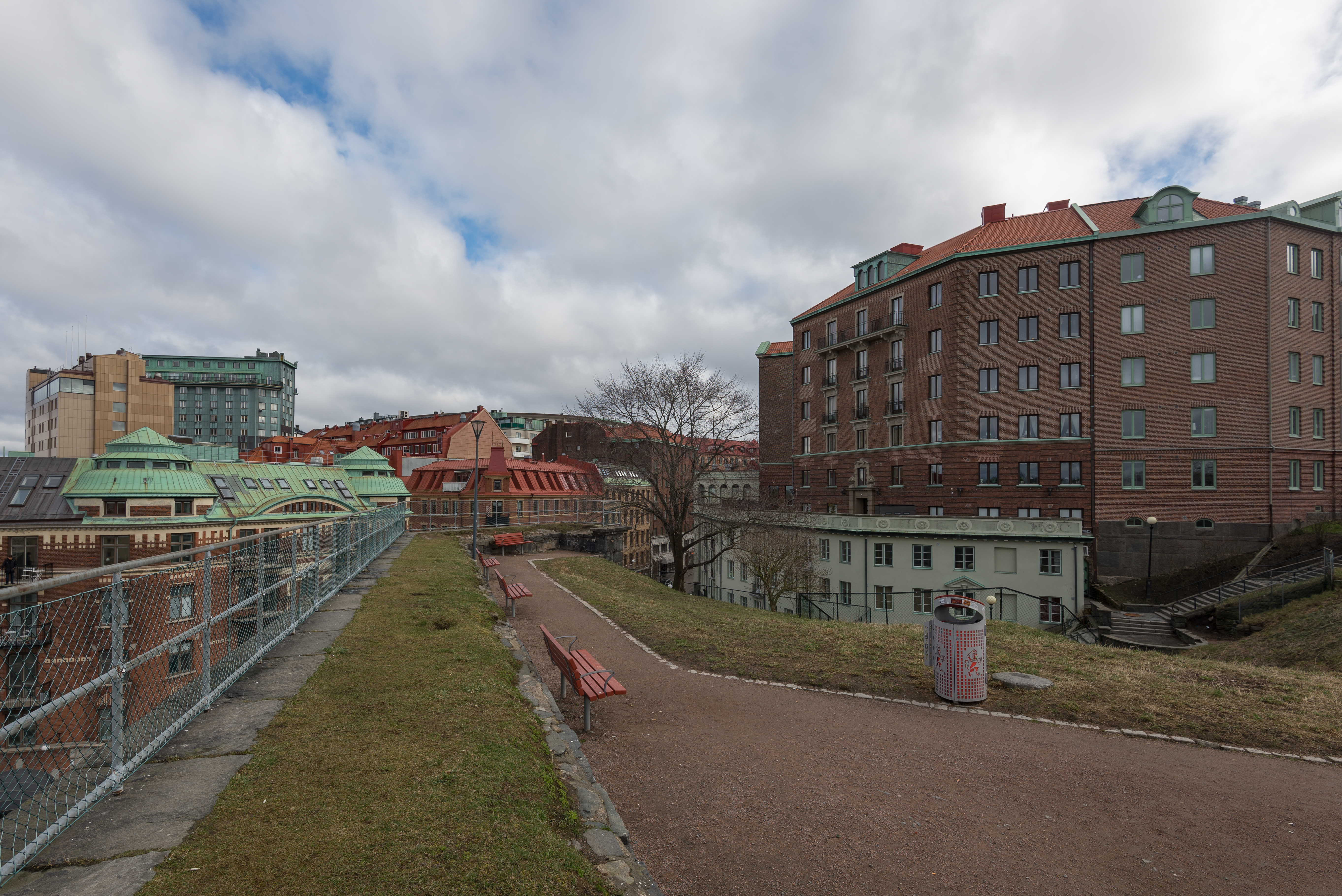 View from Kungshöjd towards Otterhällan.